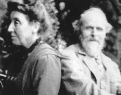 Photo of Evelyn de Morgan and her husband William De Morgan